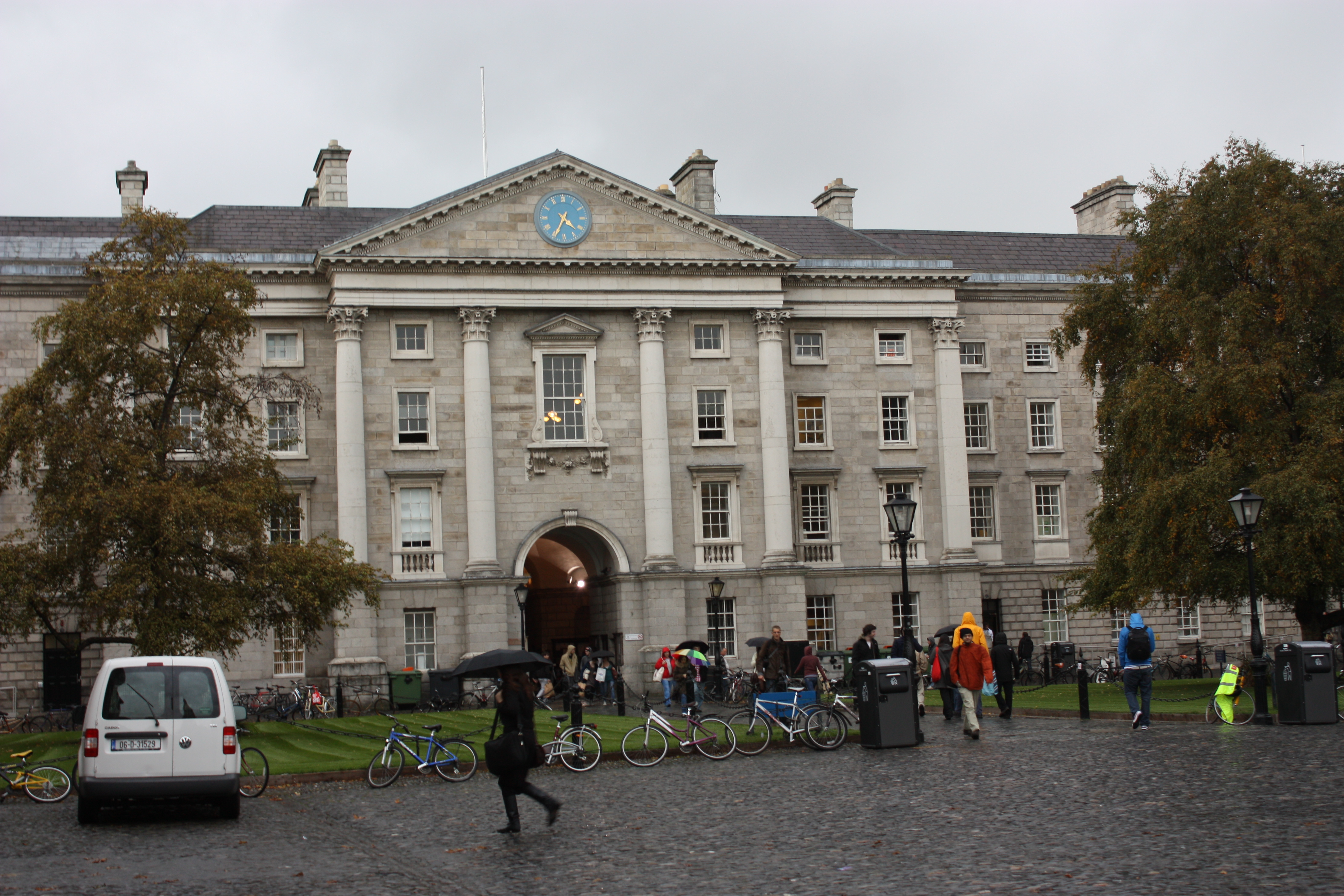 Trinity College, Dublin, Republic of Ireland, October 2010